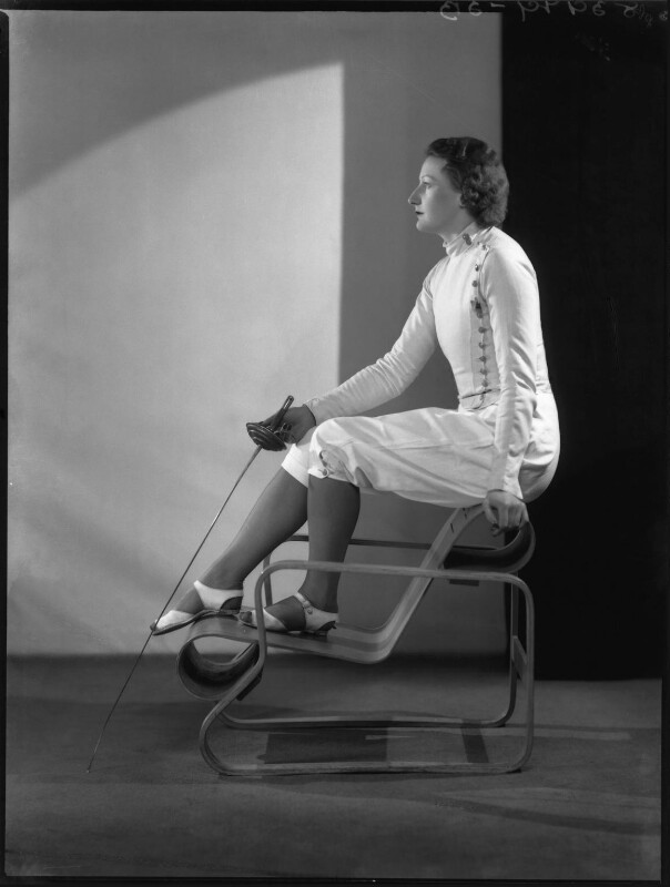 Gwendoline Neligan. Whole-plate glass negative, 1938